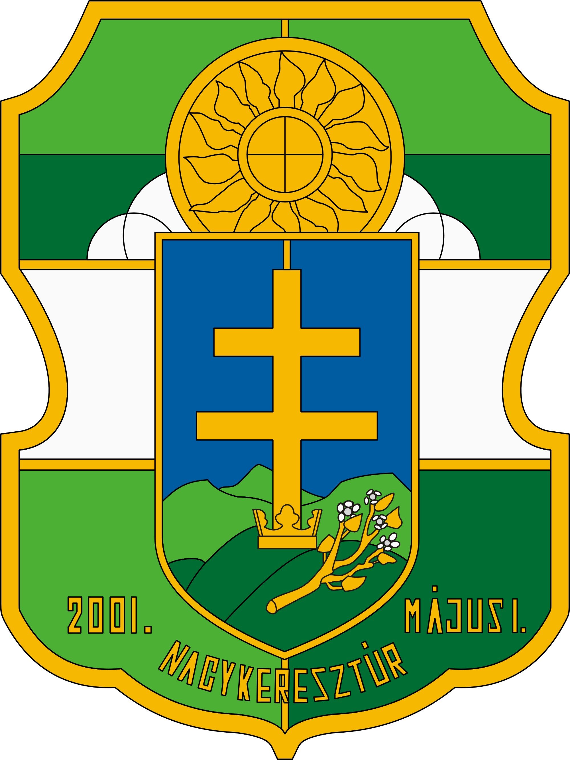 Coat of arms of Nagykeresztúr, Hungary